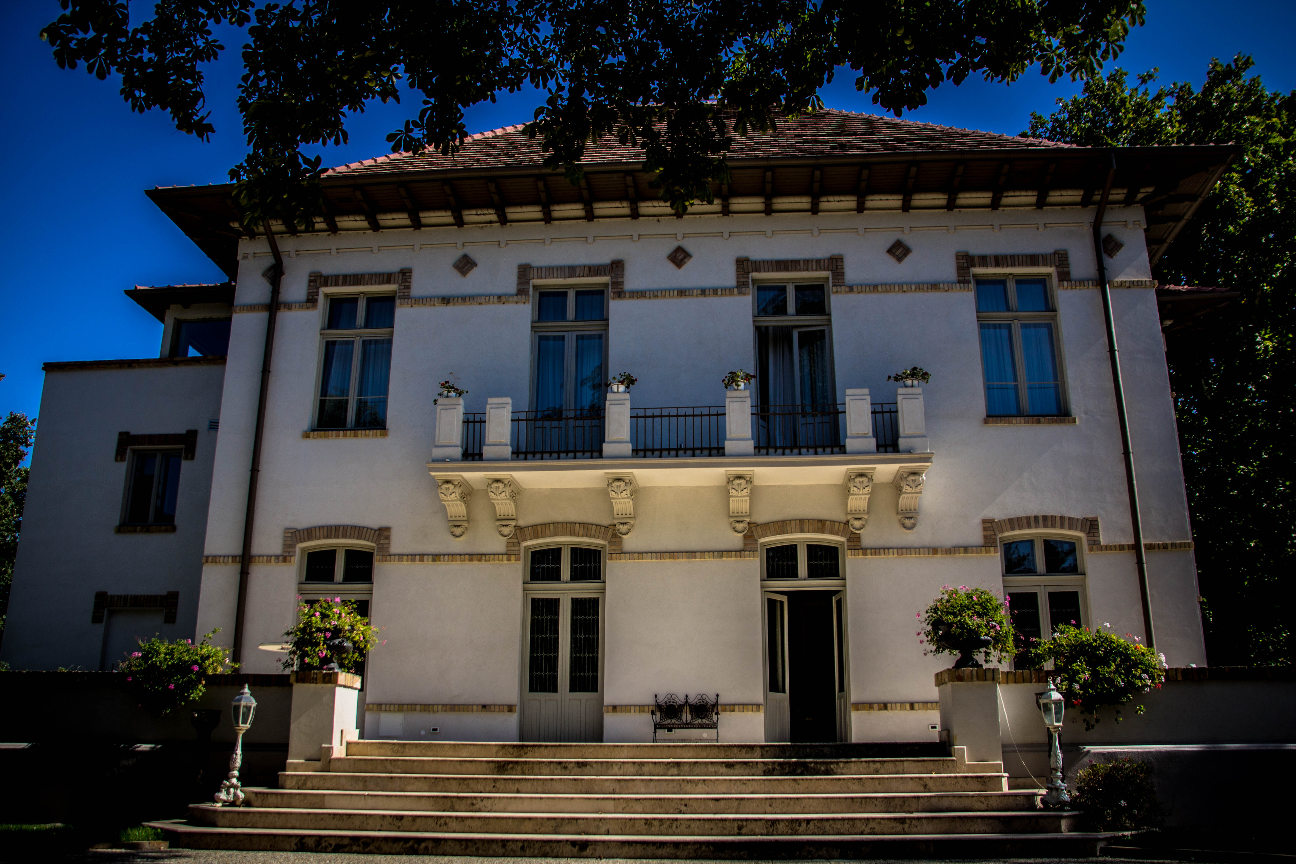 A sunny autumn day at Manasia 01